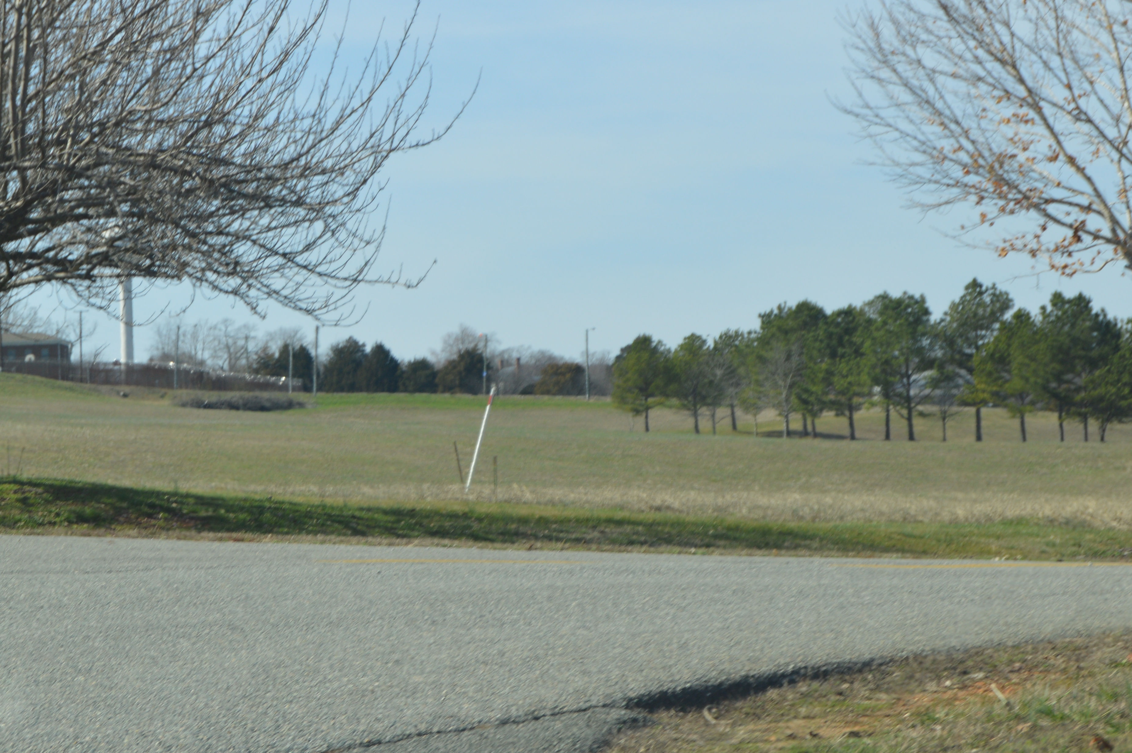 Overview from the east of the Beaumont Farm (now occupied by a juvenile prison), located southwest of Goochland Court House in Powhatan County, Virginia, United States. The farmstead is listed on the National Register of Historic Places.